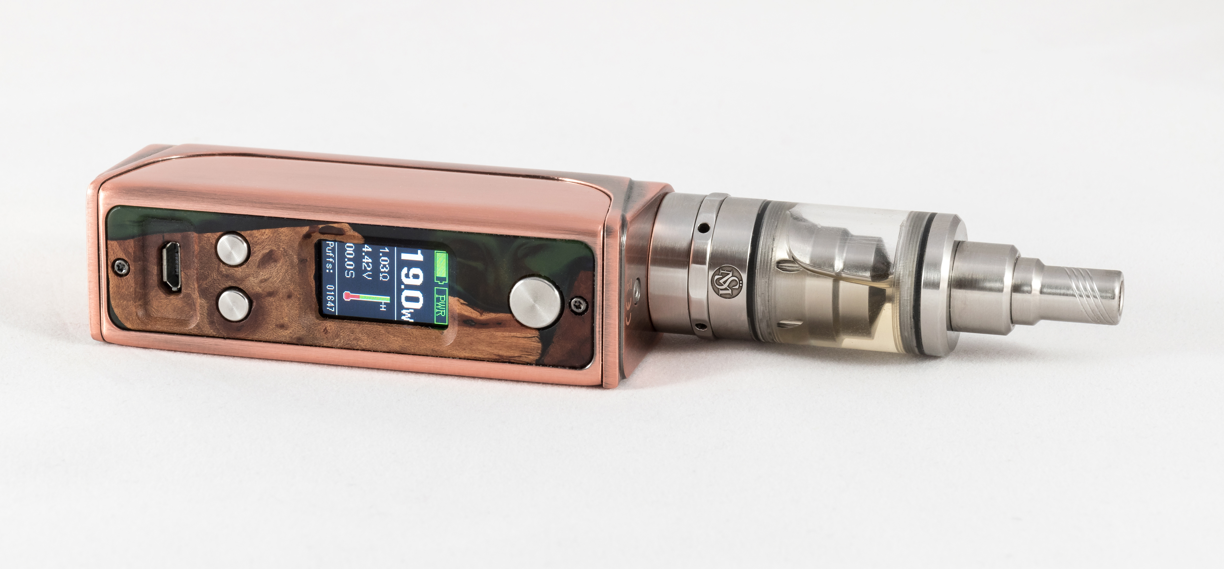 Mod: power supply Sigelei Evaya 66W and vaporizer SvoëMesto Kayfun V4